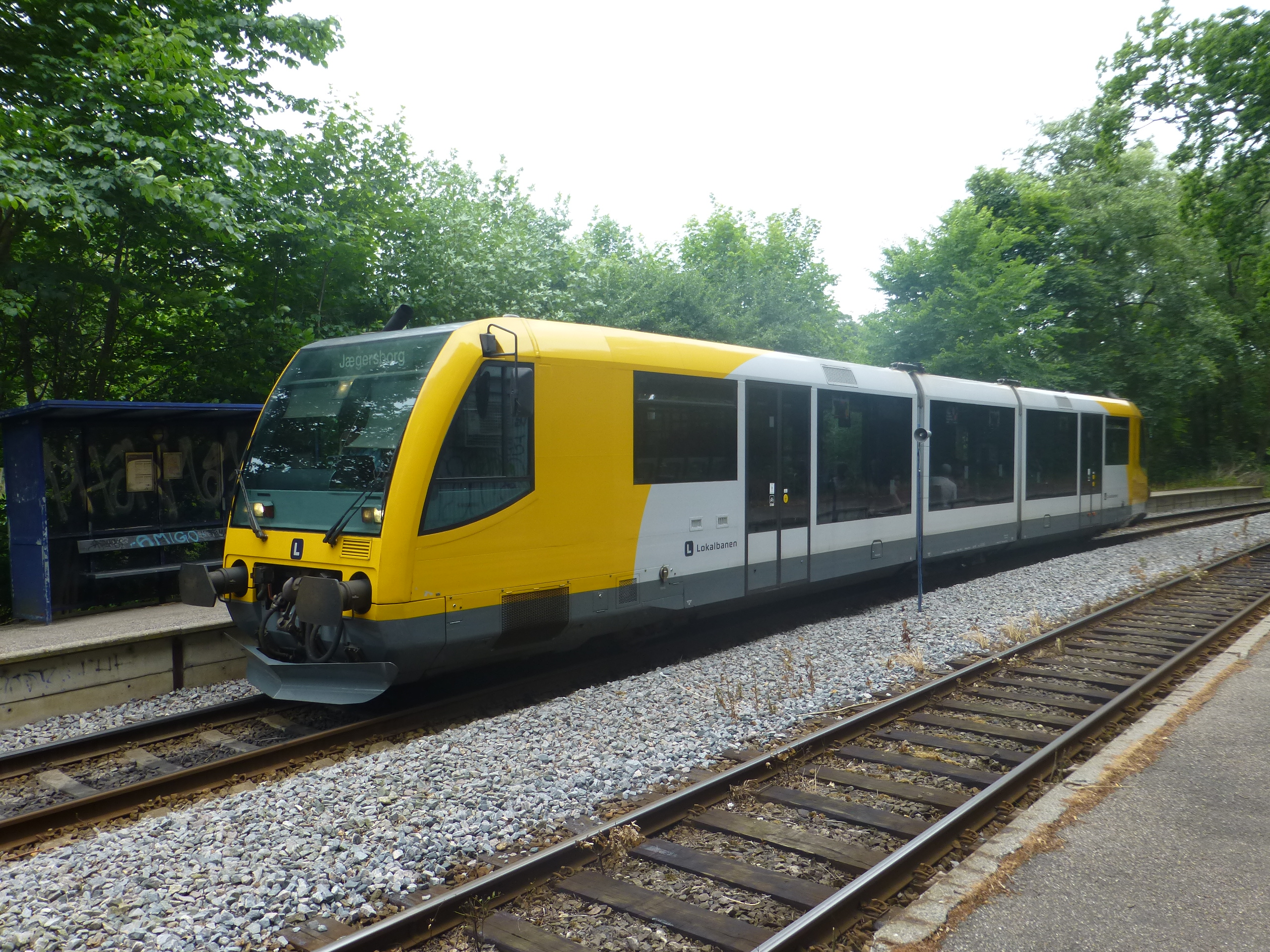 Fuglevad Station on the private railway Nærumbanen between Jægersborg and Nærum in Copenhagen.